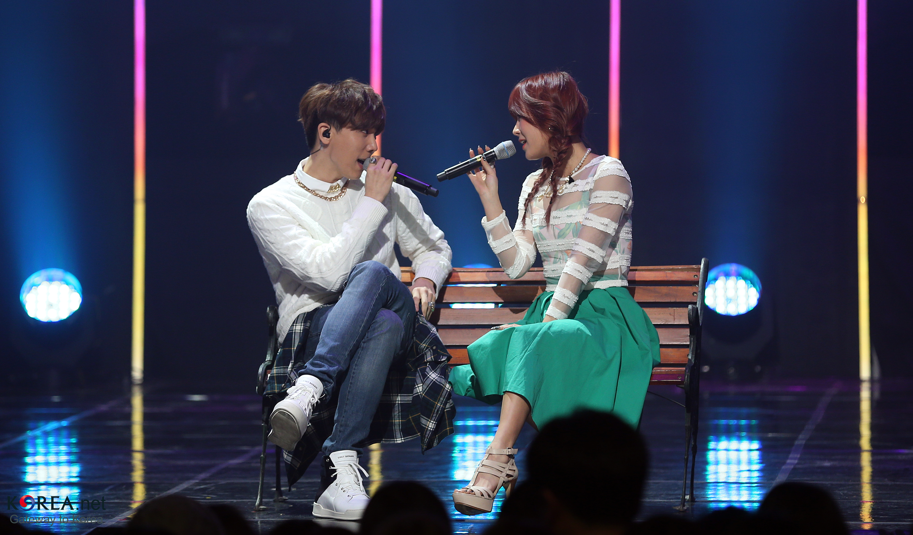 Mcountdown Junggigo x Soyou(Sistar) ‘Some’ CJ E&M Center, Sangam-dong, Mapo-gu, Seoul 2014.03.06. Ministry of Culture, Sports and Tourism Korean Culture and Information Service ( Jeon Han 엠카운트다운 생방송 정기고 x 소유(시스타) ‘썸’ 2014-03-06 CJ E&M 센터 문화체육관광부 해외문화홍보원 코리아넷 전한